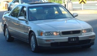 1994-1995 Acura Legend photographed in Montreal, Quebec, Canada.